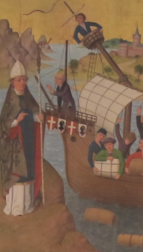 By Hermen Rode 1478-1481